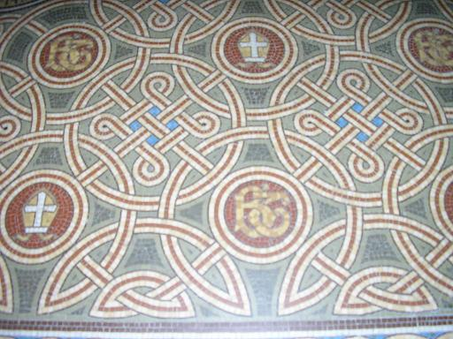 The floor of the Blessed Thaddeus Chapel in Cobh Cathedral, Co. Cork, Ireland, by Ludwig Oppenheimer.